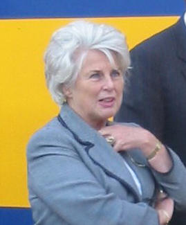 Karla Peijs (Dutch minister of Transport) in October 2006